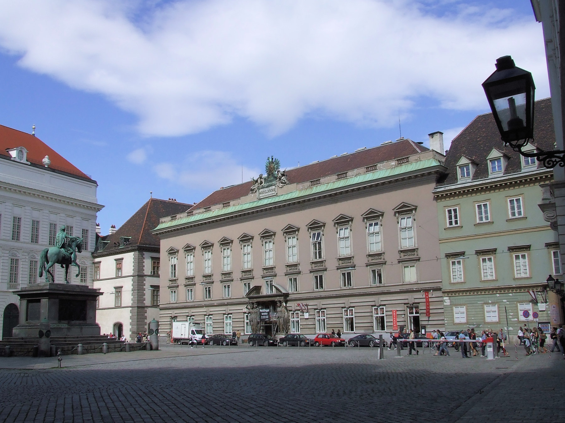 Austria, Vienna